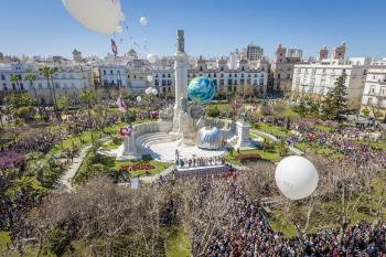 Monumento Constitución 1812